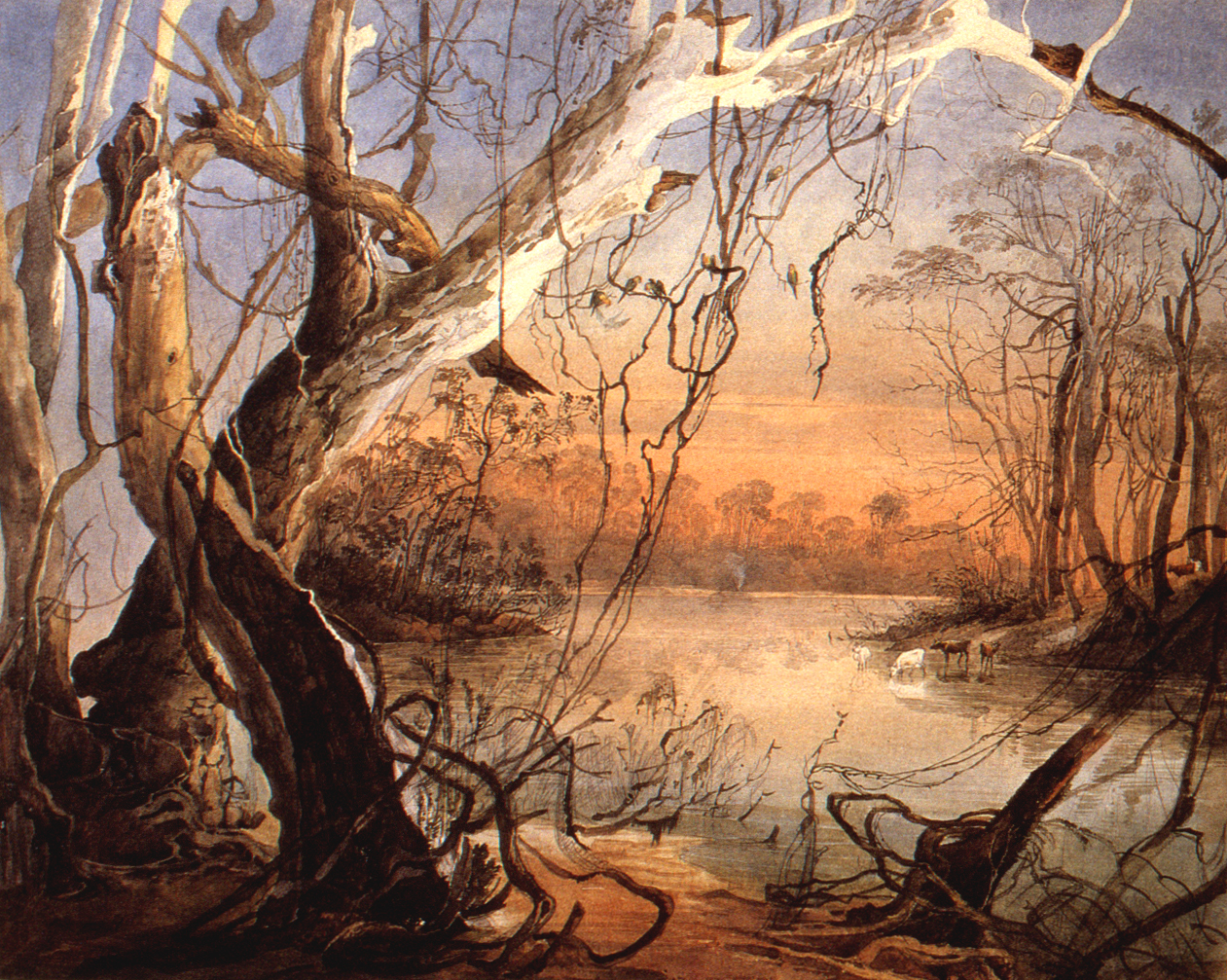 Confluence of the Fox River and the Wabash in Indiana.label QS:Len,"Confluence of the Fox River and the Wabash in Indiana." label QS:Lde,"Zusammenfluß des Fox River und des Wabash in Indiana."